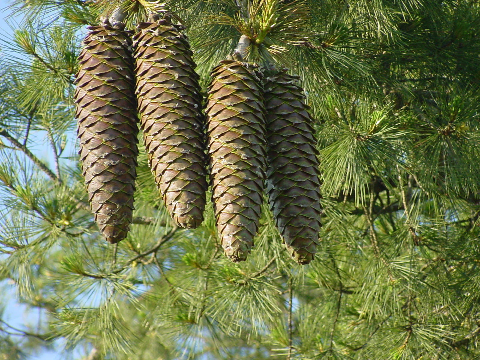 Sugar pine (Pinus lambertiana), USA.